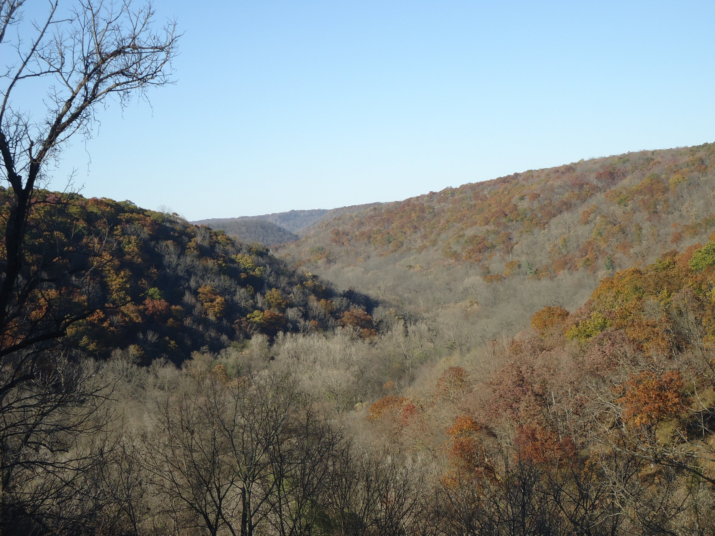 Late Autumn Forest at Beaver Creek Valley State Park, Minnesota